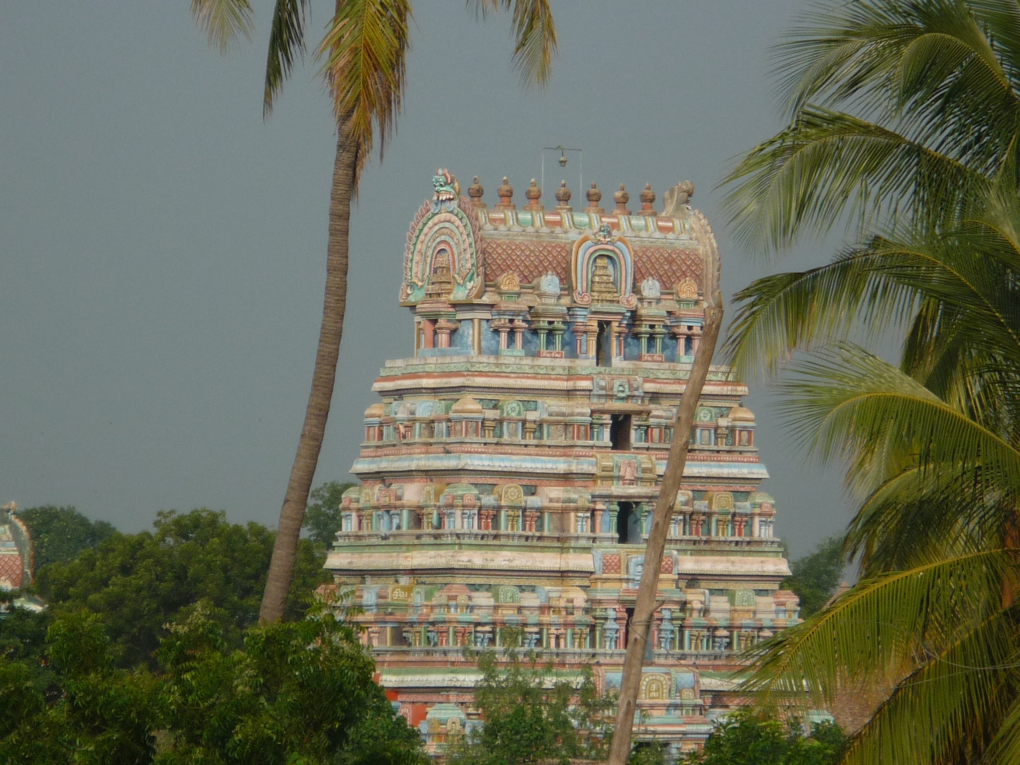 Palaivananathar Temple Tower